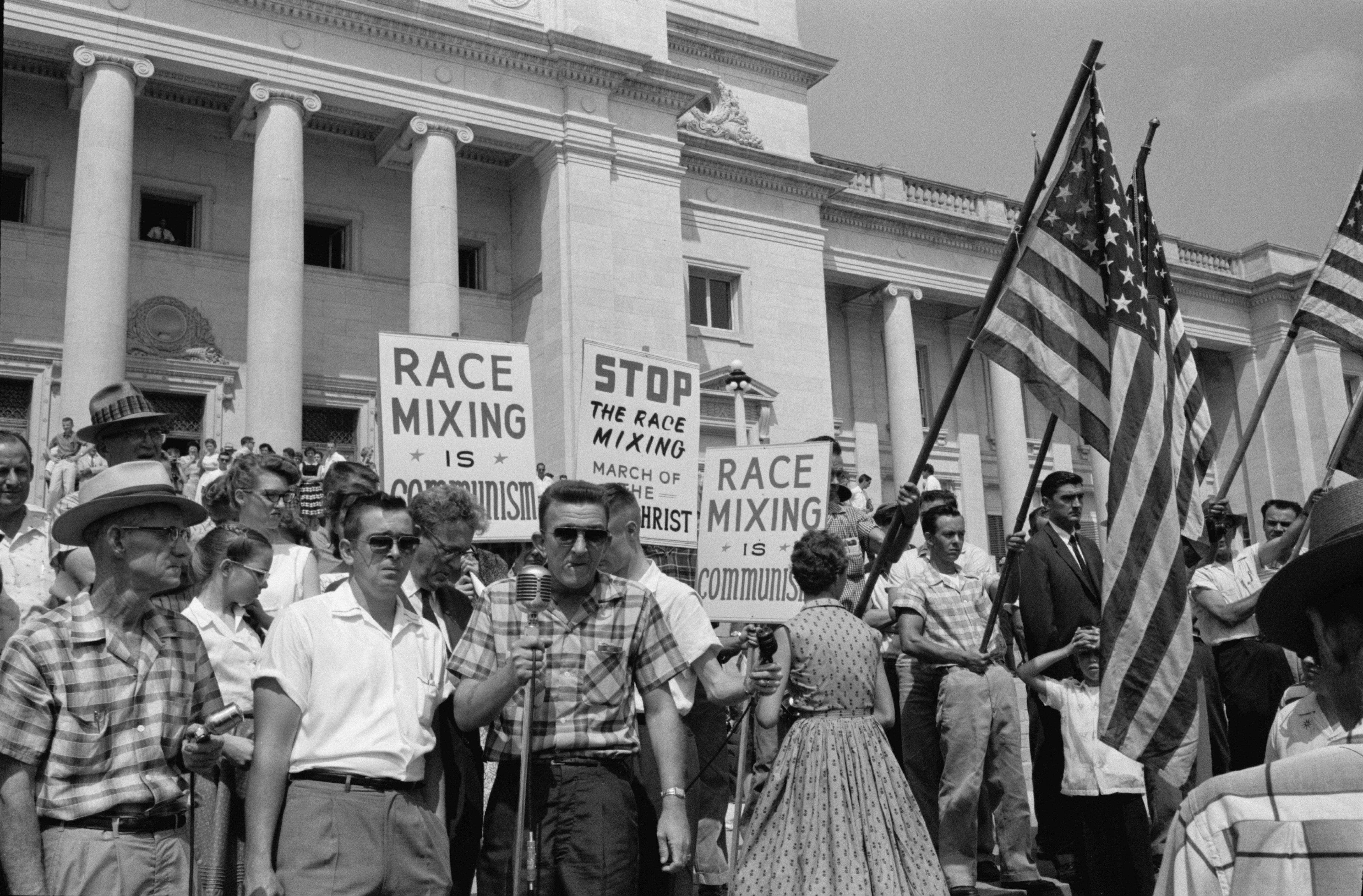 Little Rock, 1959. Rally at state capitol, protesting the integration of Central High School. Protesters carry US flags and signs reading "Race Mixing is Communism" and "Stop the Race Mixing March of the Anti-Christ".